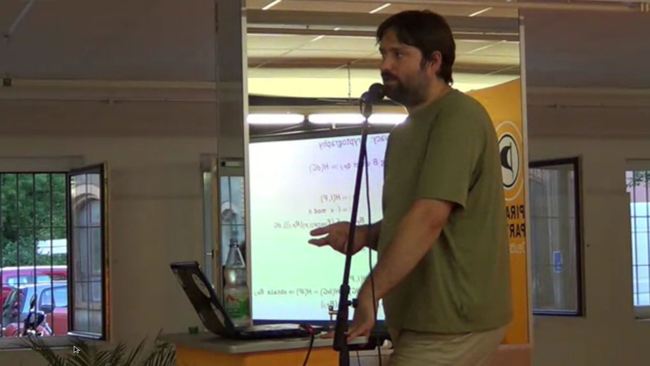 Christian Grothoff on GNUnet: "You broke the Internet. We're making ourselves a GNU one". The other speakers were Carlo von Lynx (on secushare), Jacob Appelbaum (on Internet Censorship and Surveillance) and Richard Stallman (on Free Software)